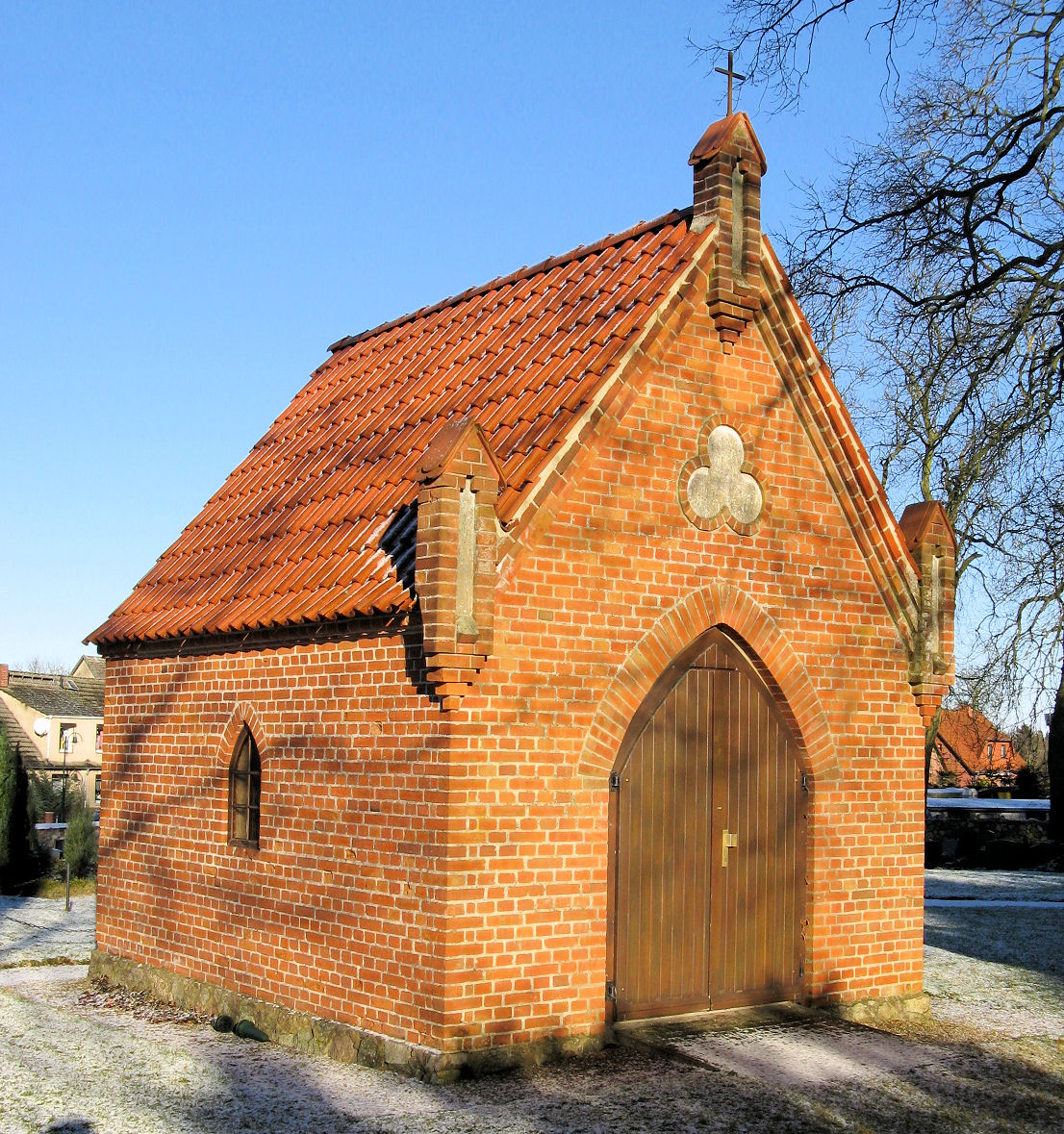 Chapel near the Church in Perlin, Mecklenburg-Vorpommern, Germany